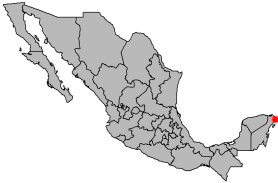 Locator map of Isla Mujeres — off the Yucatán Peninsula in México.